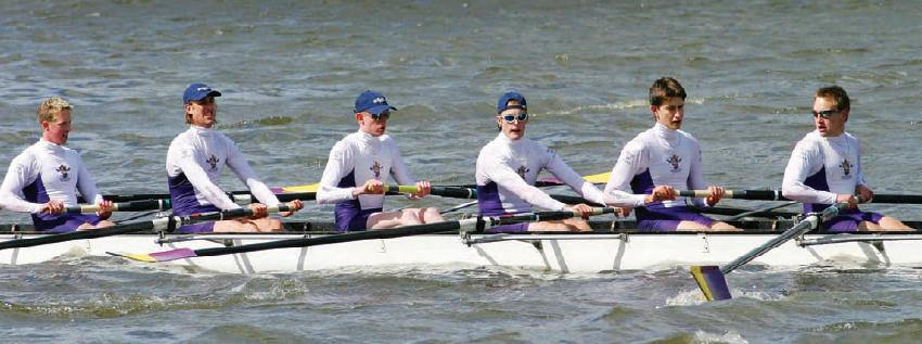 i created this myself